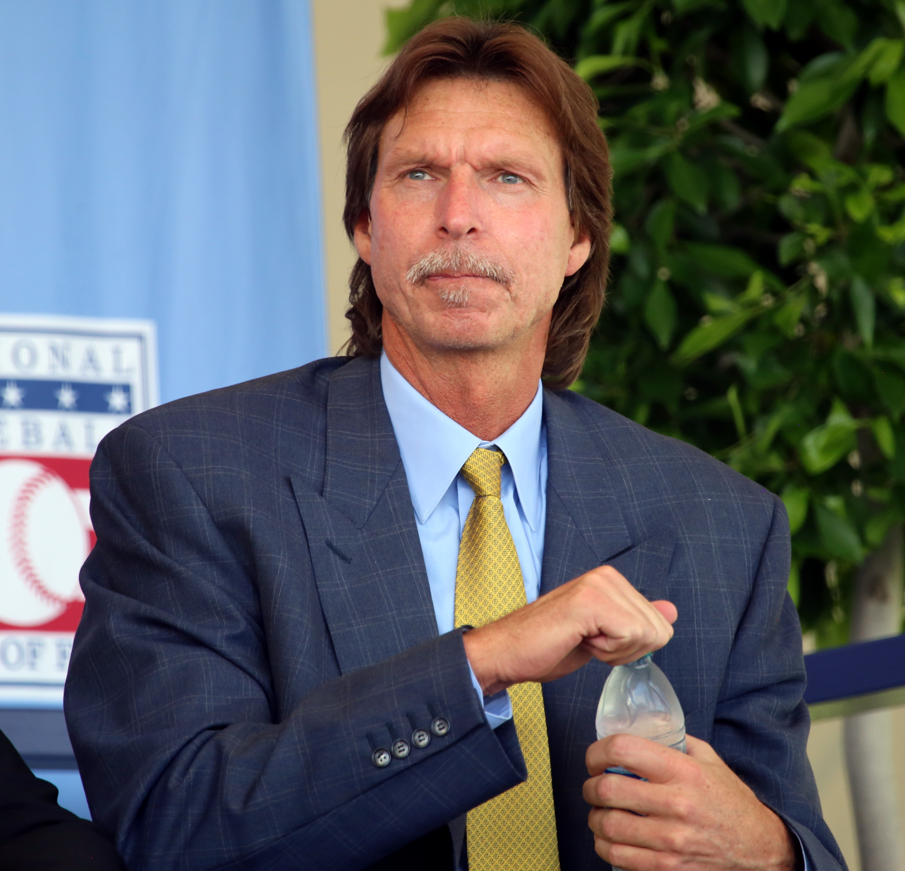 Randy Johnson during the 2016 Hall of Fame Induction Ceremony.